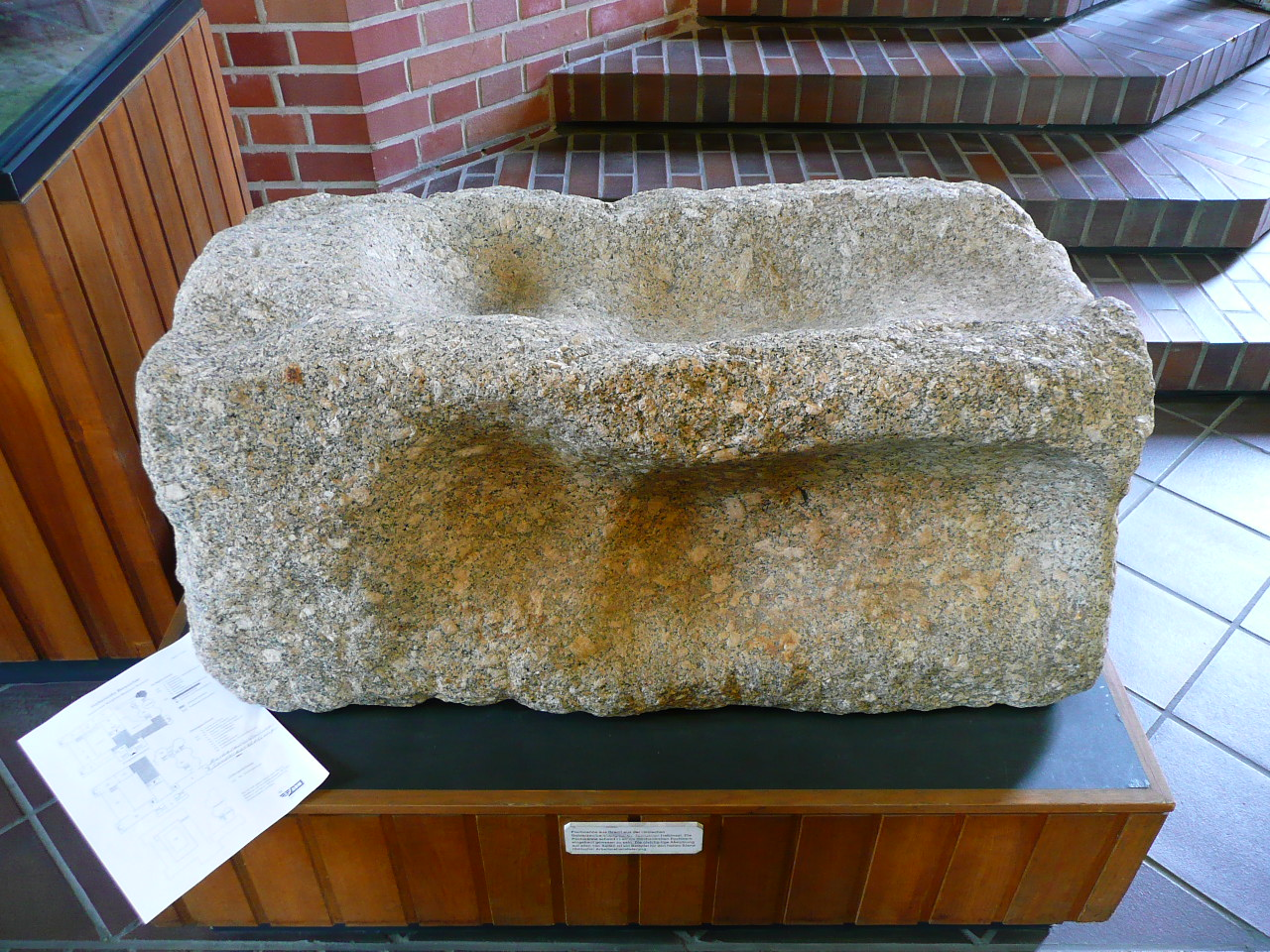 Stone anvil from the Roman gold mine at Três Minas, Portugal. The granite block was used for an ore-crushing stamp-battery. On display at the Deutsches Bergbau-Museum in Bochum.